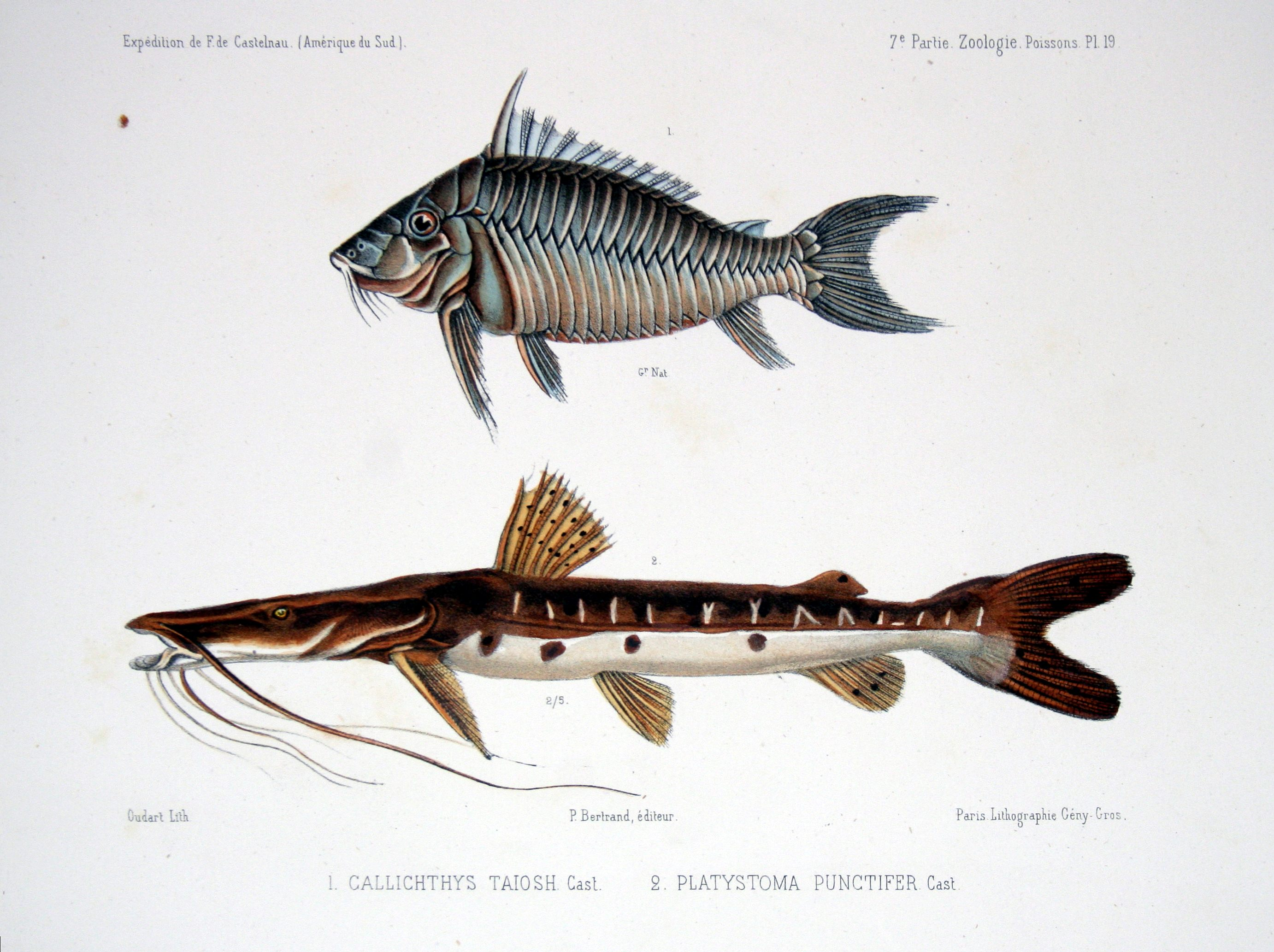 From top to bottom: Callichthys taiosh = Brochis splendens Platystoma punctifer = Pseudoplatystoma punctifer?